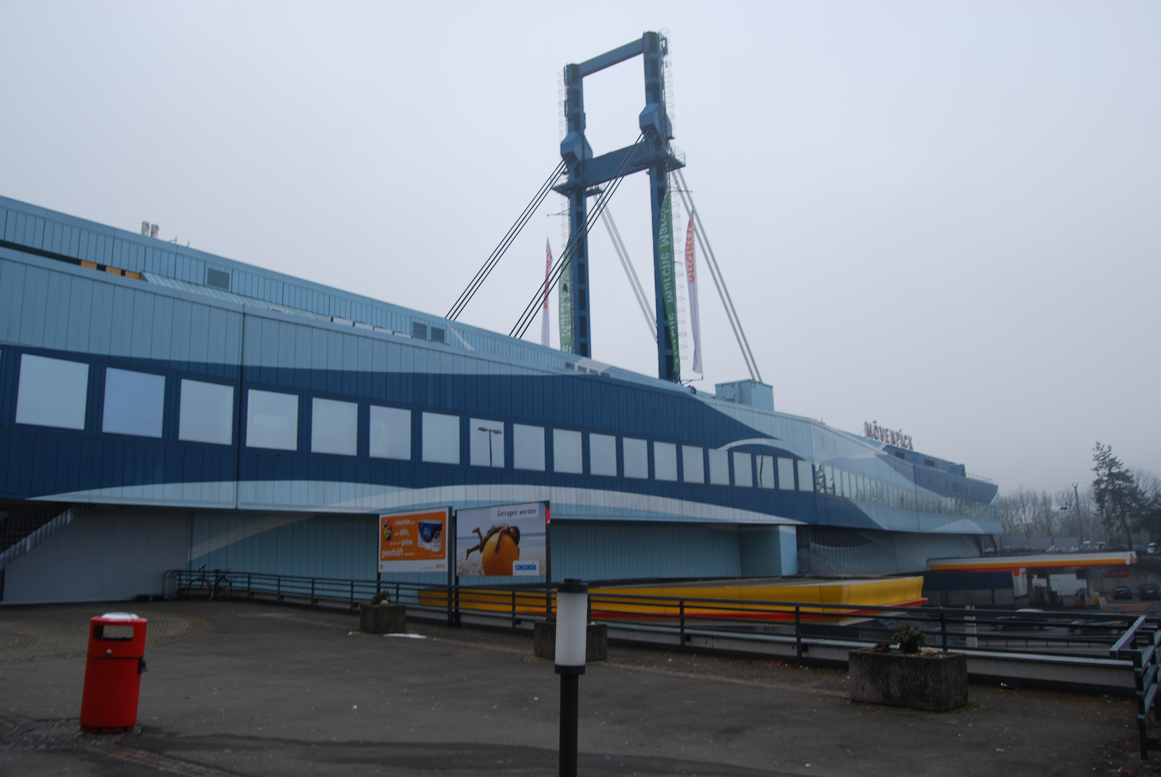 Highway rest station "Fressbalken" at Würenlos, canton of Aargau, SwitzerlandEsperanto: Aŭtoŝose restadejo "Fressbalken" en Würenlos, Kantono Argovio, Svislando